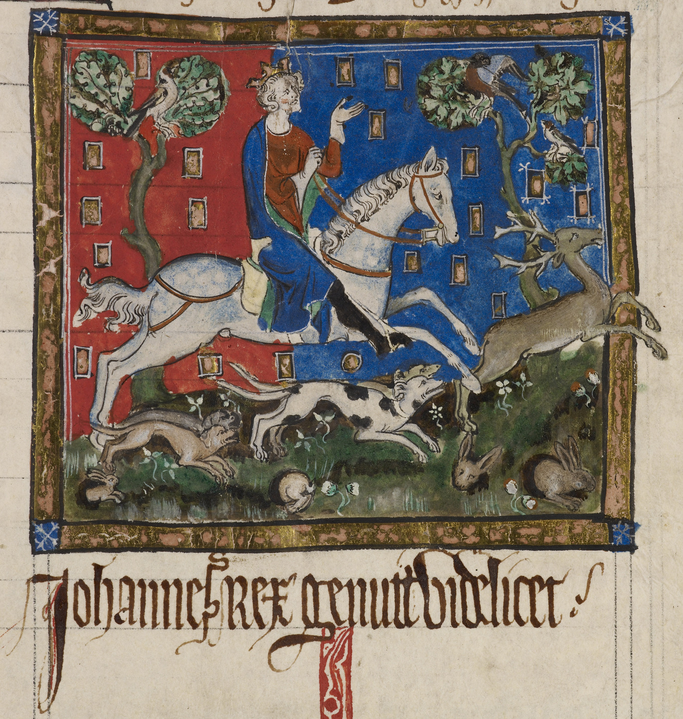 King John hunting [Miniature only] King John hunting a stag with hounds.